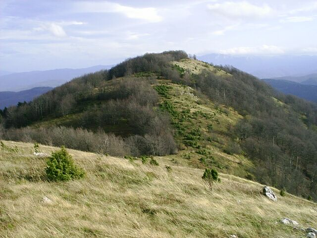 The Inač hill, Bosnia and Herzegovina